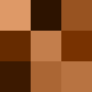 Edited version of Image:Color_icon_blue.svg.